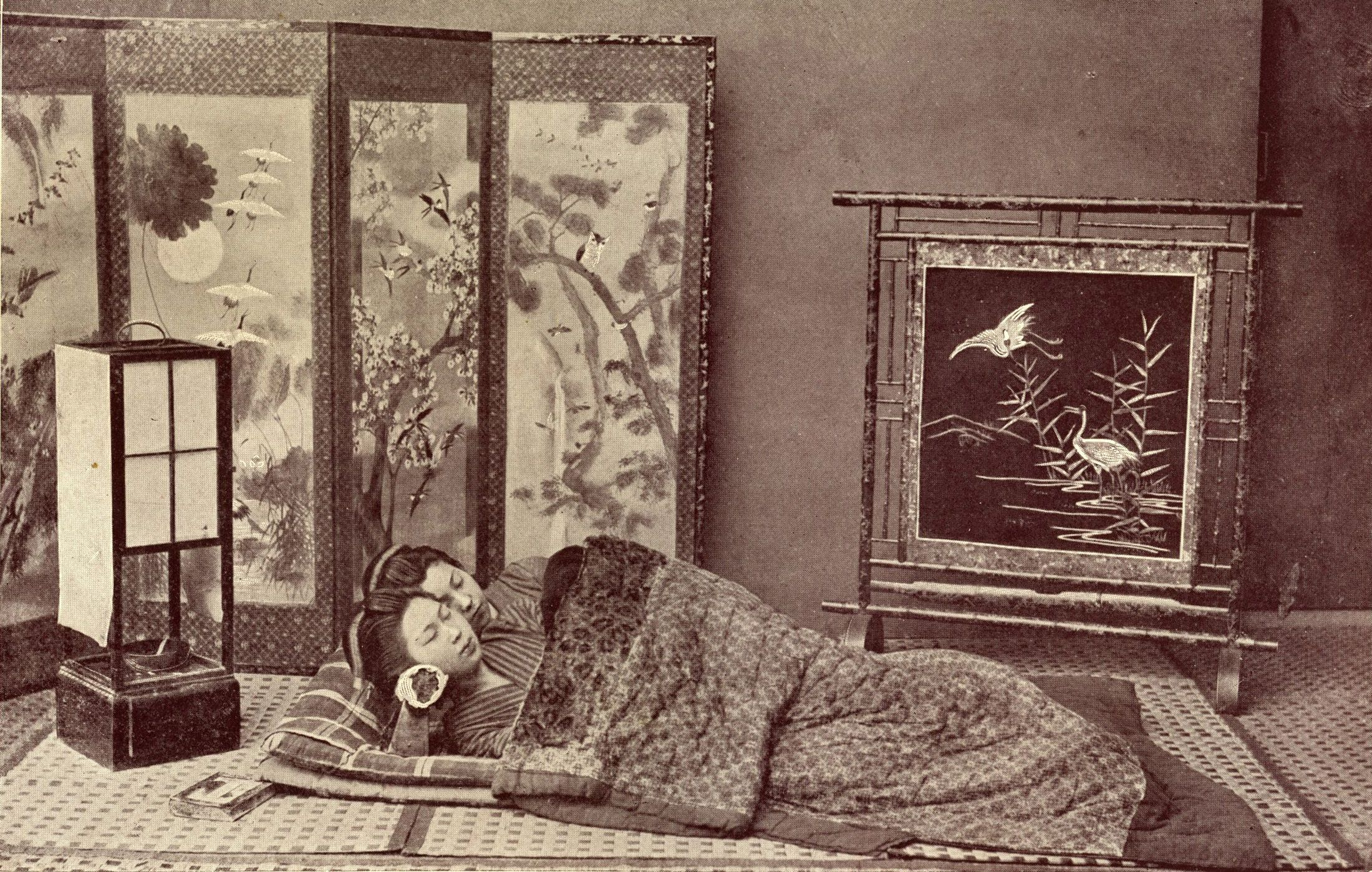 Sleeping Japanese. Photo from the book "Japan And Japanese" (1902)